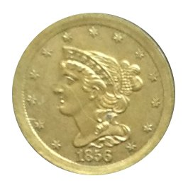 1856 pattern half cent in copper-nickel. The Mint had no intent of producing half cents in this metal (or at all, if it could avoid it), it was to display how coins in that metal looked, like the Mint hoped the new cent coin would be.